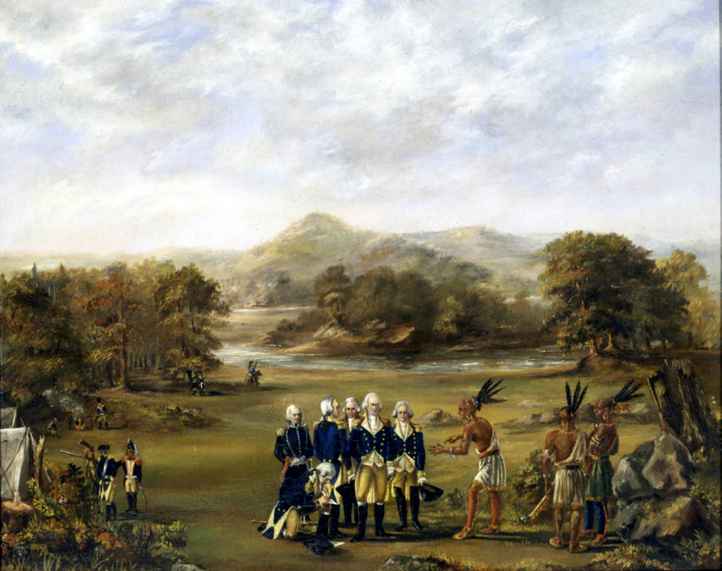 Painting of Indian Treaty of Greenville, 1795, done around the time. Note: Oil on canvas depiction of the Treaty of Greenville. The principal figures believed to be represented therein are General Anthony Wayne, the officer, front view, with epaulets on shoulders, standing near Chief Little Turtle. William Henry Harrison, a subordinate officer, standing to the right of General Wayne. Captain William Wells, the officer kneeling and acting as the interpreter and transcribing the Indian's speech. Little Turtle, the great Miami Chief, talking to General Wayne. Tarke the Crane, Wyandotte Chief, Priest and Keeper of the great Calumet, or Pipe of Peace. Woodland setting; river and mountains in the background. The Treaty of Greenville was the result of American victory over the Ohio Indian confederacy at the Battle of Fallen Timbers in northwestern Ohio in 1794. In the 1795 treaty, the American Indian confederation ceded much of Ohio and parts of Indiana, Illinois, and Michigan to the United States government. Object Number: 1914.1, Image File Name: ICHi-64806, Chicago Historical Society. Collection Number: SC 404, Image Number: AL00235